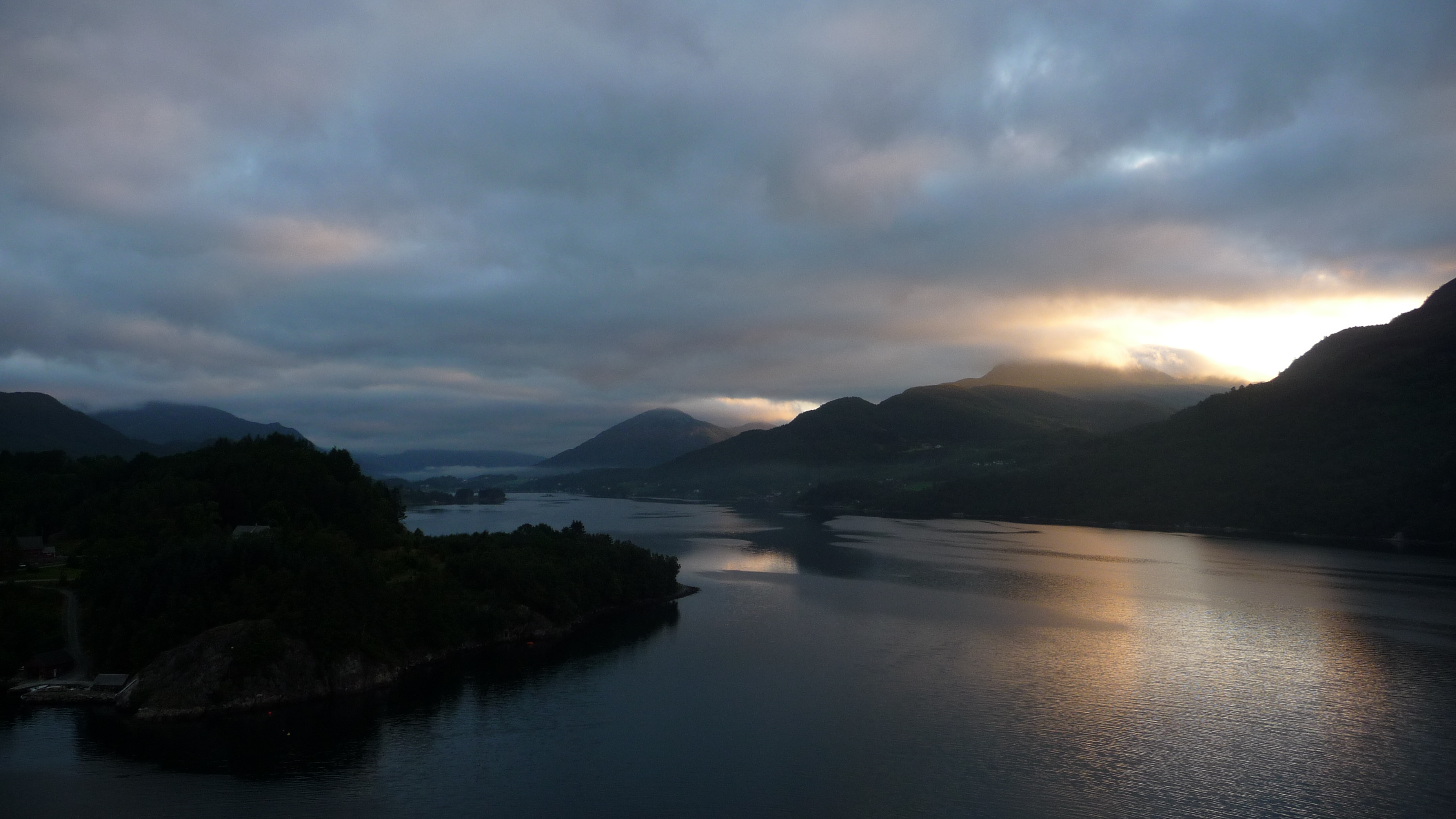 Sunrise Vatsfjorden